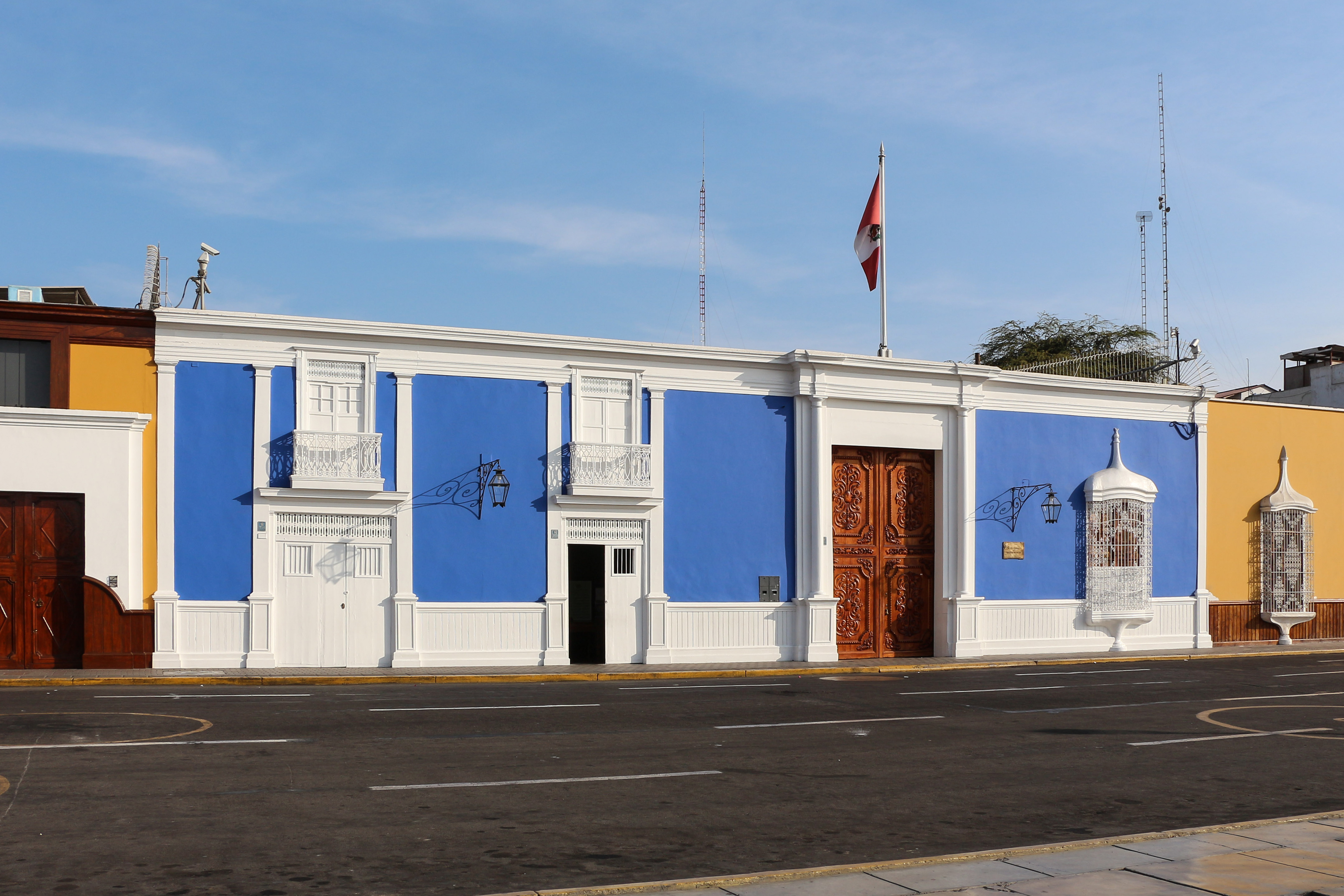 Central Reserve Bank of Peru, Trujillo, Peru